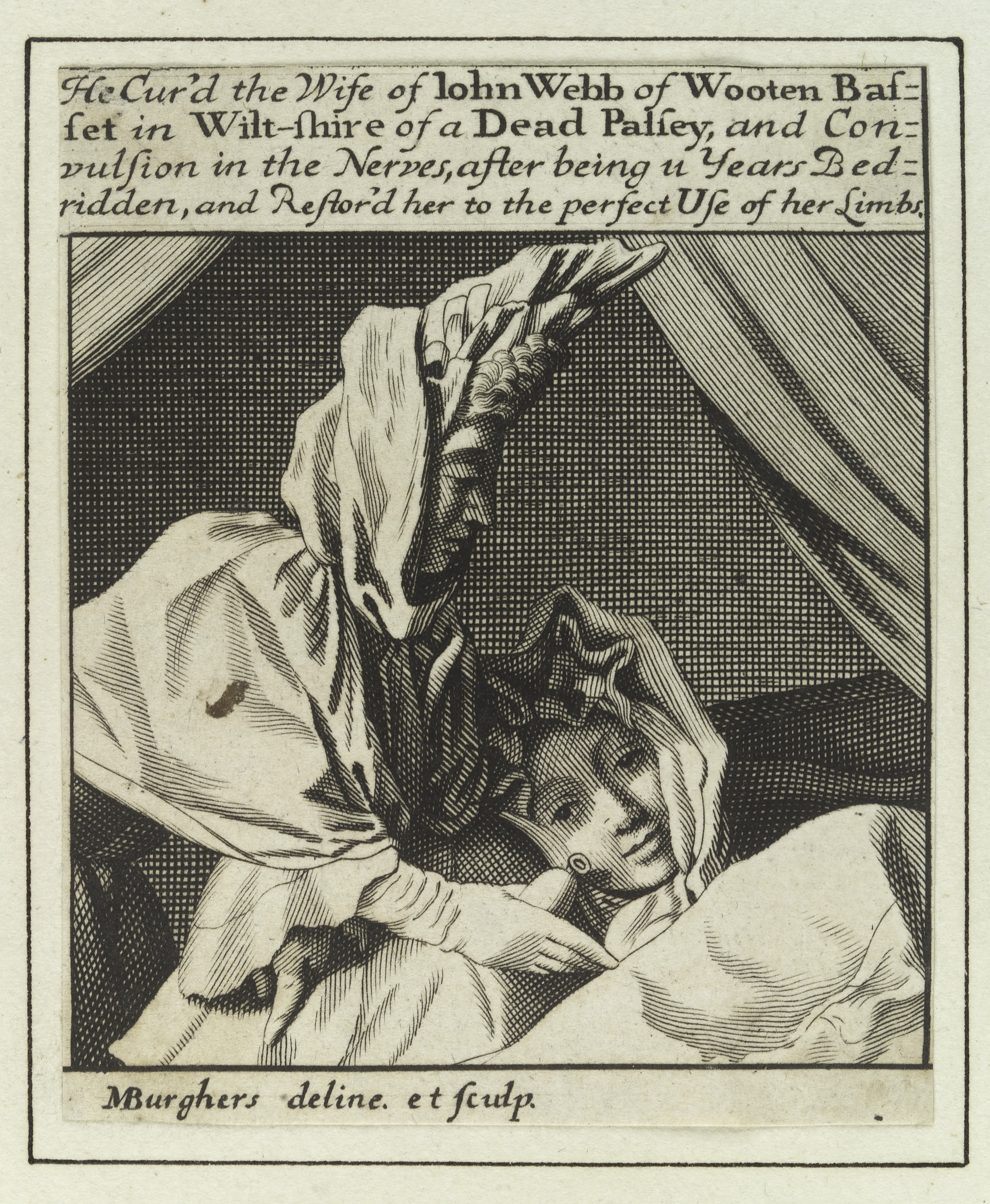 Mrs John Webb, being nursed when sick in bed with "a dead palsey, and ... convulsion in the nerves", before being cured by Sir William Read. Engraving by M. Burghers, ca. 1700. Iconographic Collections Keywords: Nervous System; Disease; Paralysis; Michael Burghers